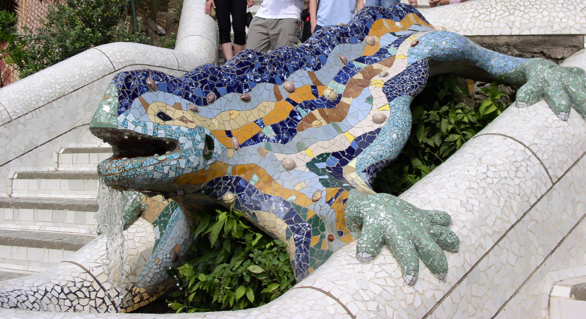 Figurine by Antoni Gaudí in Parc Güell